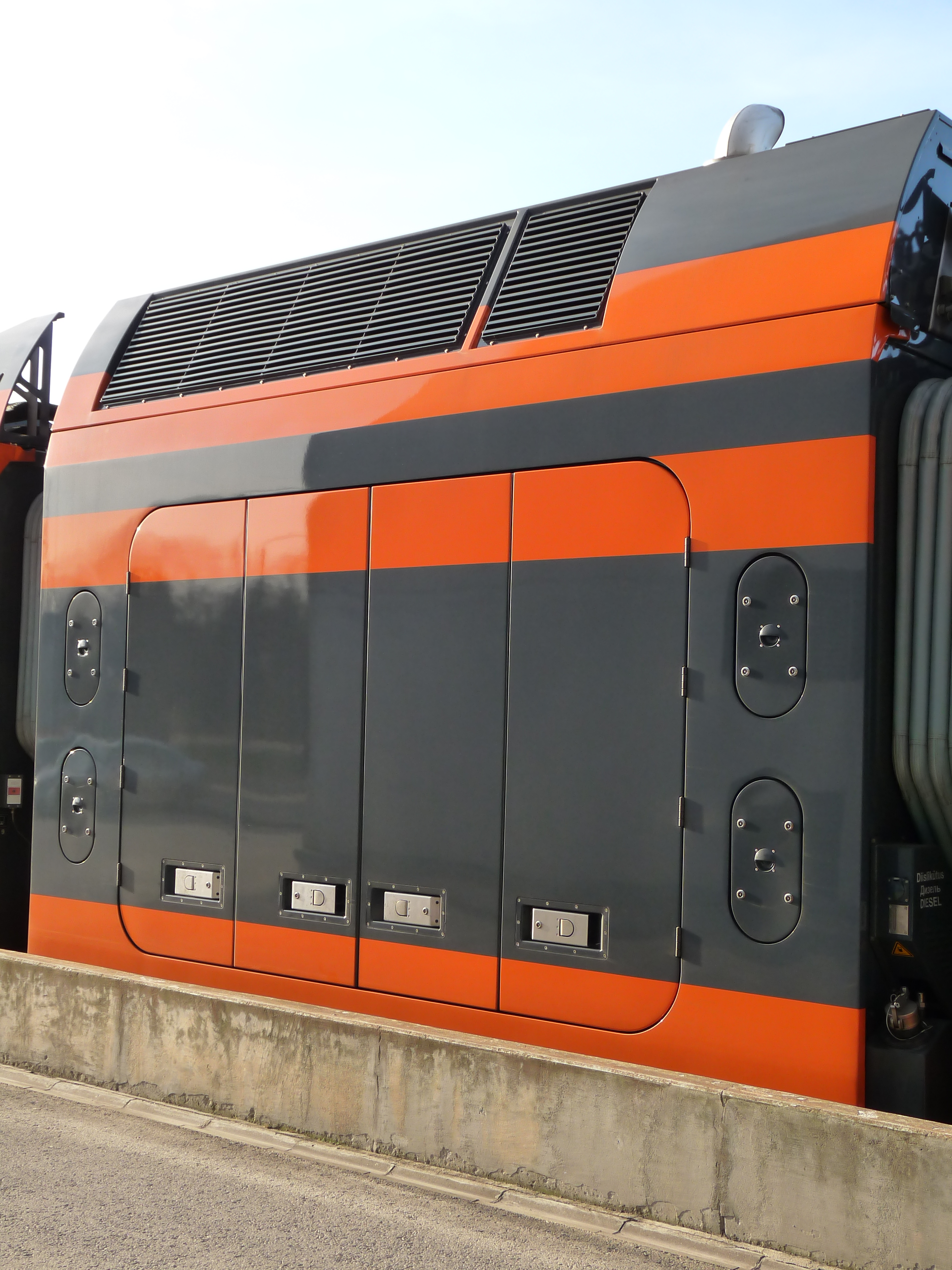 Diesel generator of Stadler train